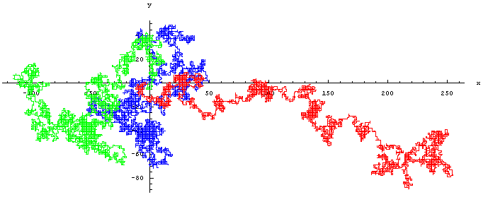 Isotropic random walk on the euclidean lattice Z 2 {\displaystyle \mathbb {Z} ^{2 . This picture shows three different walks after 10 000 unit steps, all three starting from the origin.